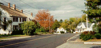 An Autumn Day on Green Street in Kingston, Massachusetts.